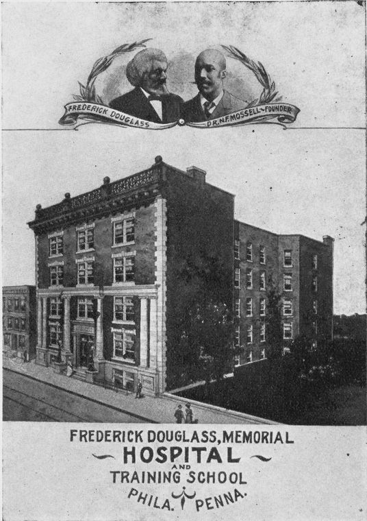 Mossell at Frederick Douglas Memorial Hospital